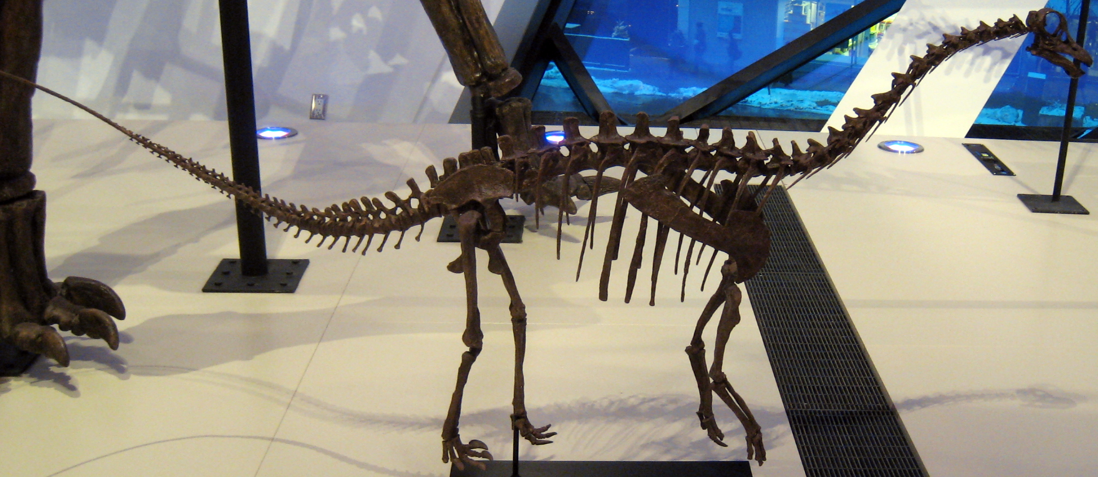 Juvenile Sauropod (Toni, specimen SMA 0009) skeleton at Royal Ontario Museum, Toronto, Canada.